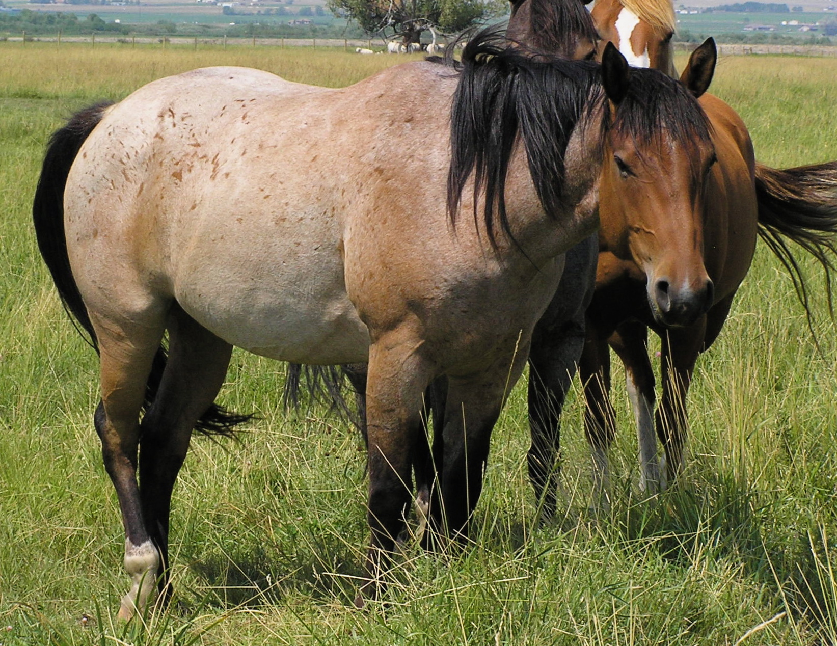 A classic bay roan horse, probably of Quarter Horse breeding